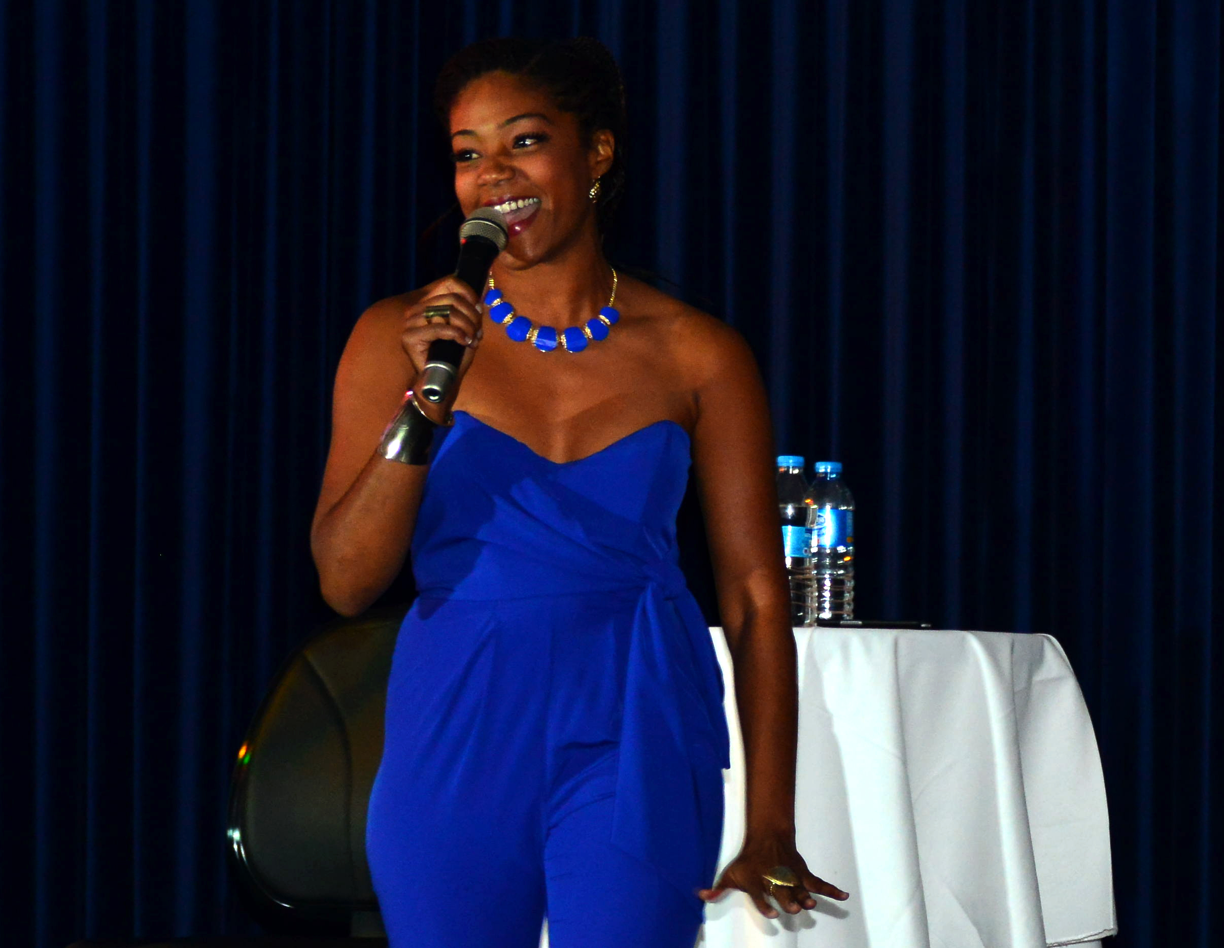 Tiffany Haddish, comedian, tells jokes to audience members during a performance October 21, 2013, at Incirlik Air Base, Turkey. Her act was part of a tour sponsored by Armed Forces Entertainment to provide comedic relief to service members overseas.